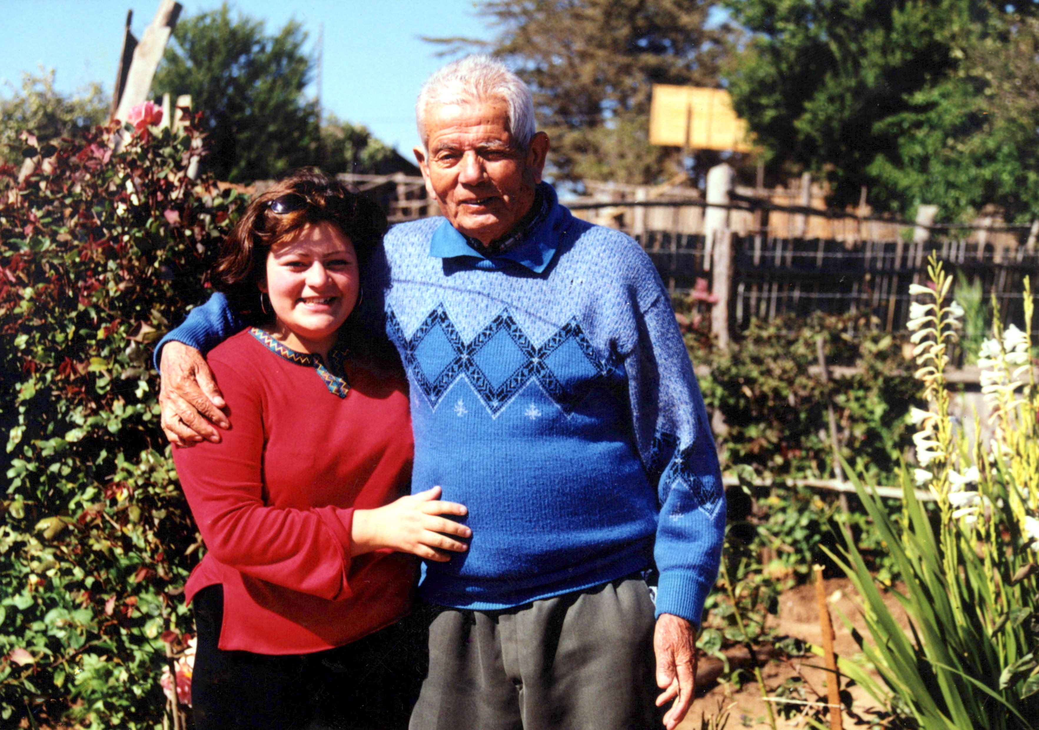 My Grandfather